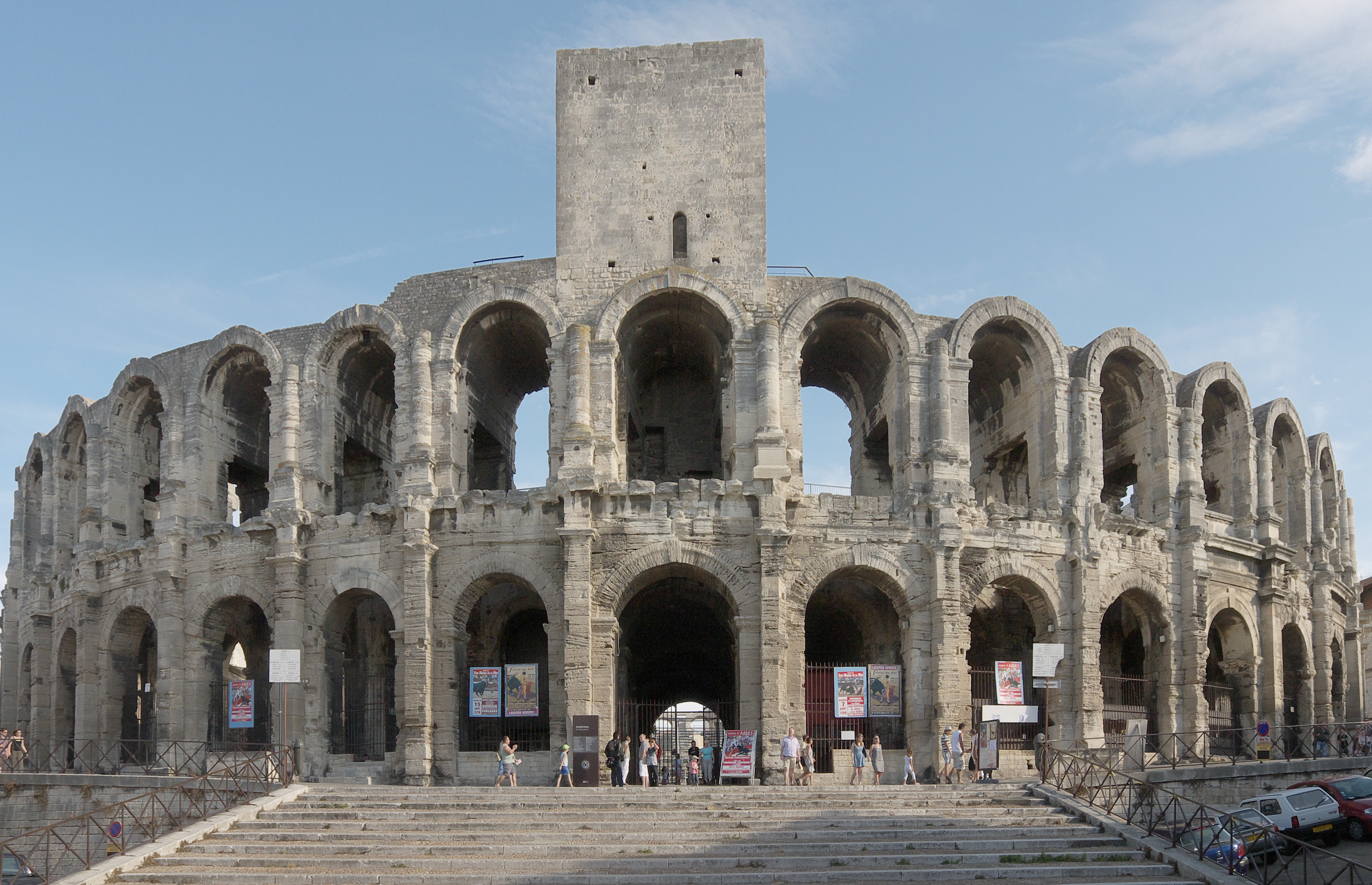 France, Arles, roman Arena, seen from North